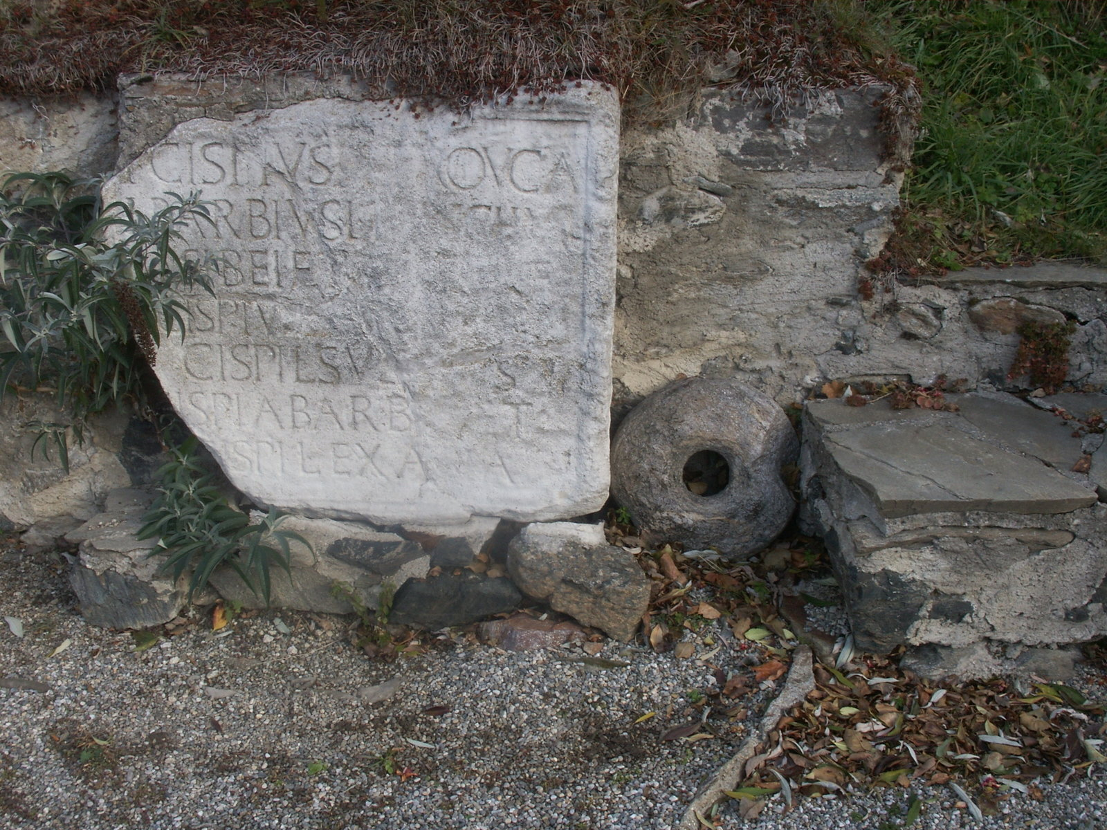 Roman tomb slab in the ruin of an early christian church, destroyed around 600 in Laubendorf near Lake Millstatt (Millstätter See), district Spittal an der Drau in Carinthia / Austria / EU. The Paleochristian churche in Carinthia was filled in again after 55 years. The community Millstatt am See has not fought for the preservation. The grave stone now lies on the southern edge of the property at the driveway to the barn.